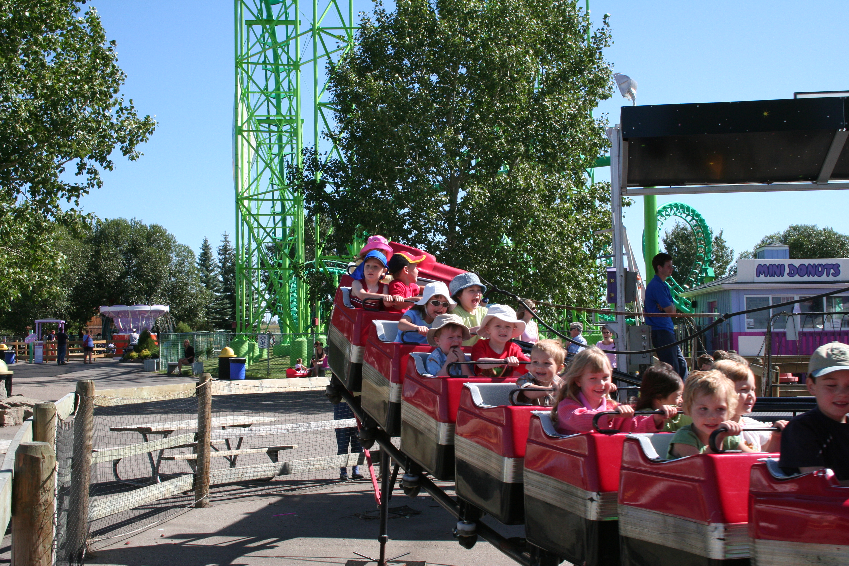 Calaway Amusement Park